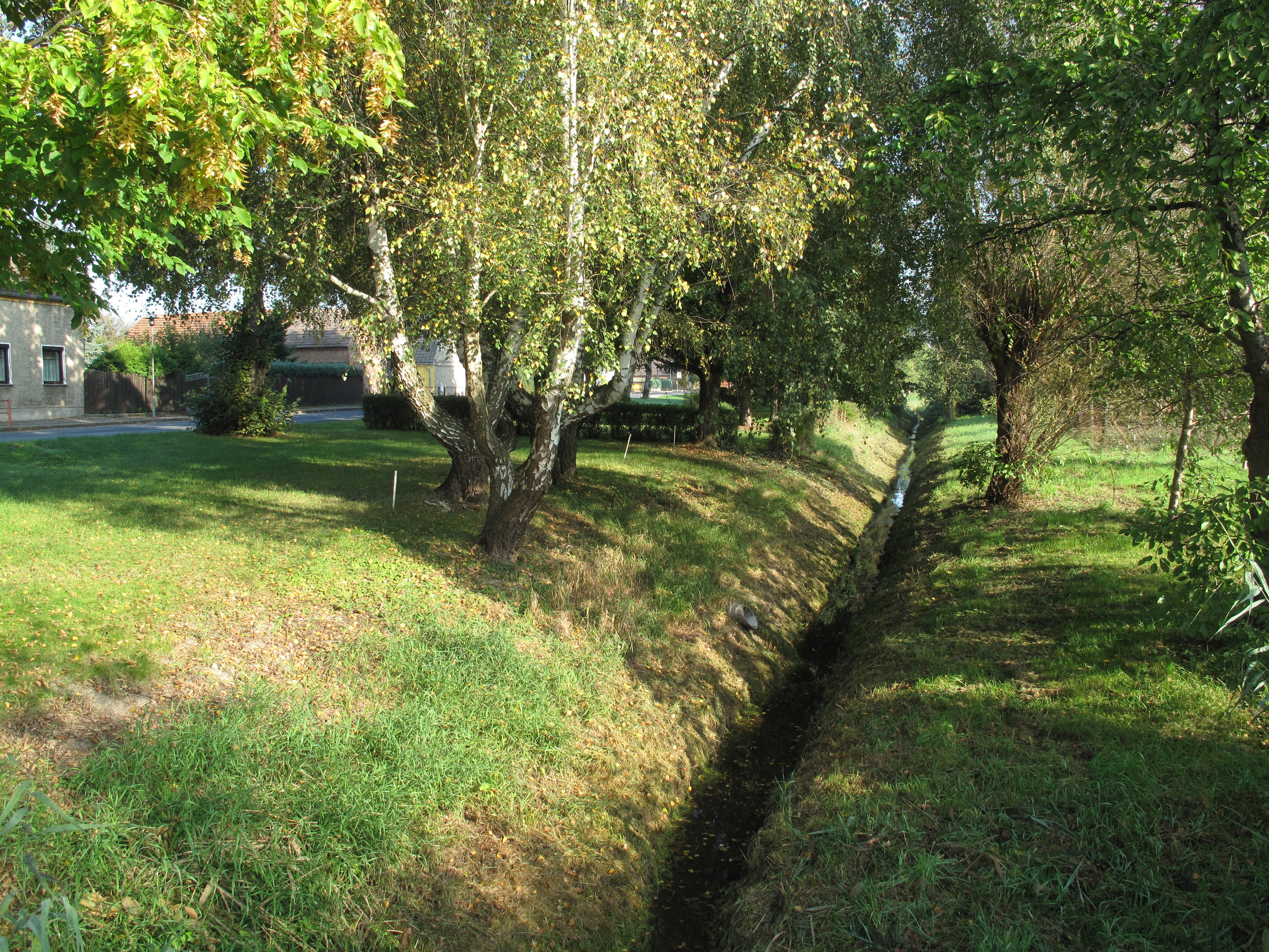 Kossenblatter Mühlenfließ (stream) in the centre of the village Falkenberg. Falkenberg is a part (german: Ortsteil) of the municipality Tauche in the District Oder-Spree, Brandenburg, Germany.